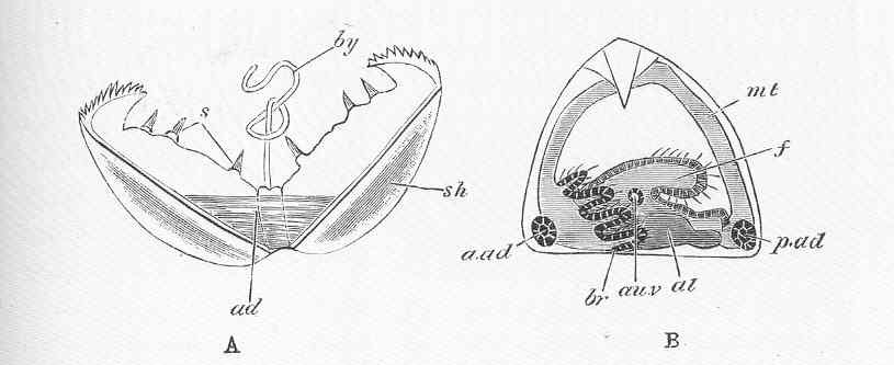 Glochidium : A, immediately after it is hatched: ad, adductor muscle; by, 'byssus' cord; s, sense organs; sh, shell B, after it has been on the fish for some weeks: a.ad, p.ad, anterior and posterior adductors; al, alimentary canal; au.v, auditory vesicle; br, branchiae; f, foot; mt, mantle. (Balfour Subject: Unionidae Tag: Mollusks